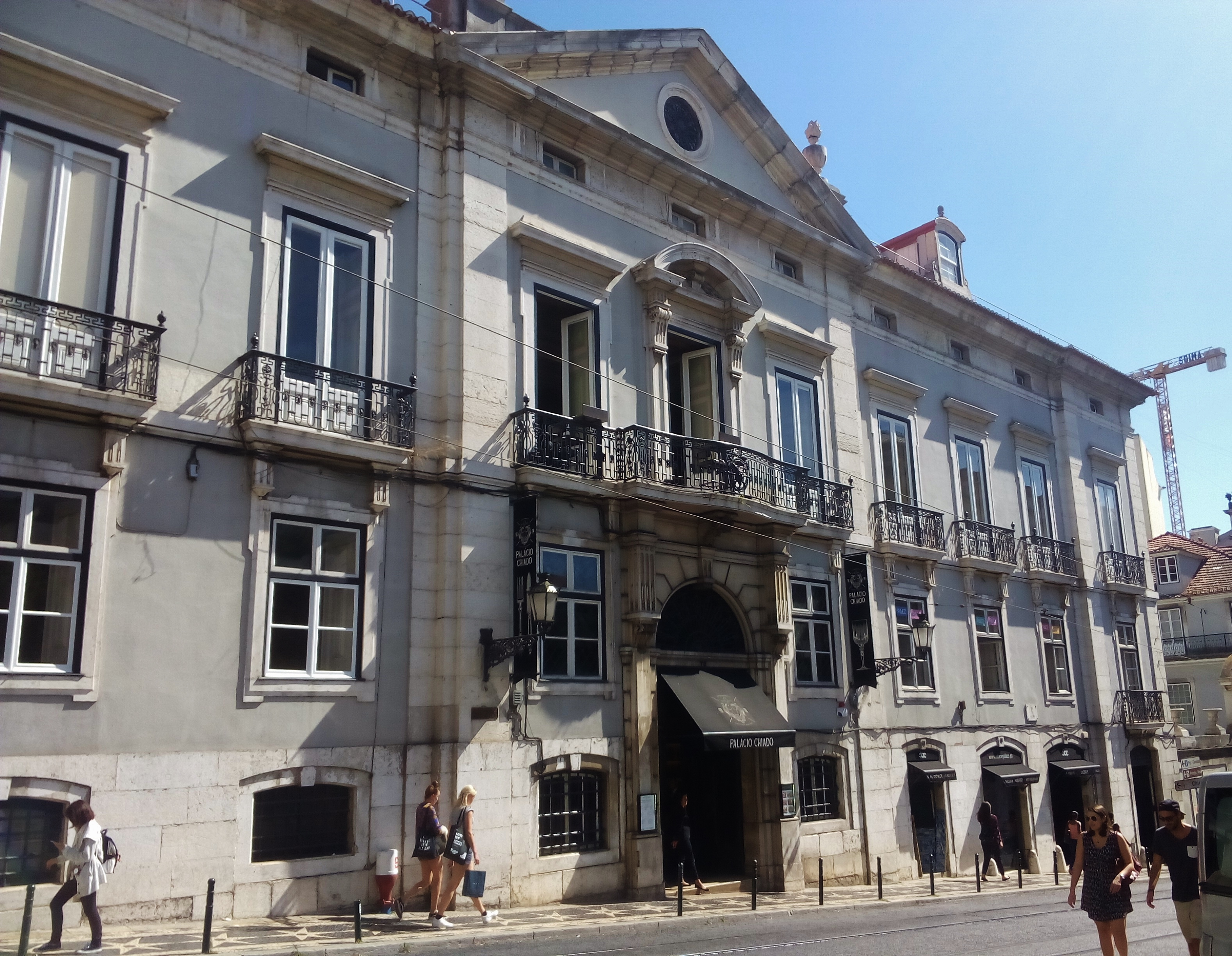 Main façade of Quintela Palace, in Lisbon, Portugal.